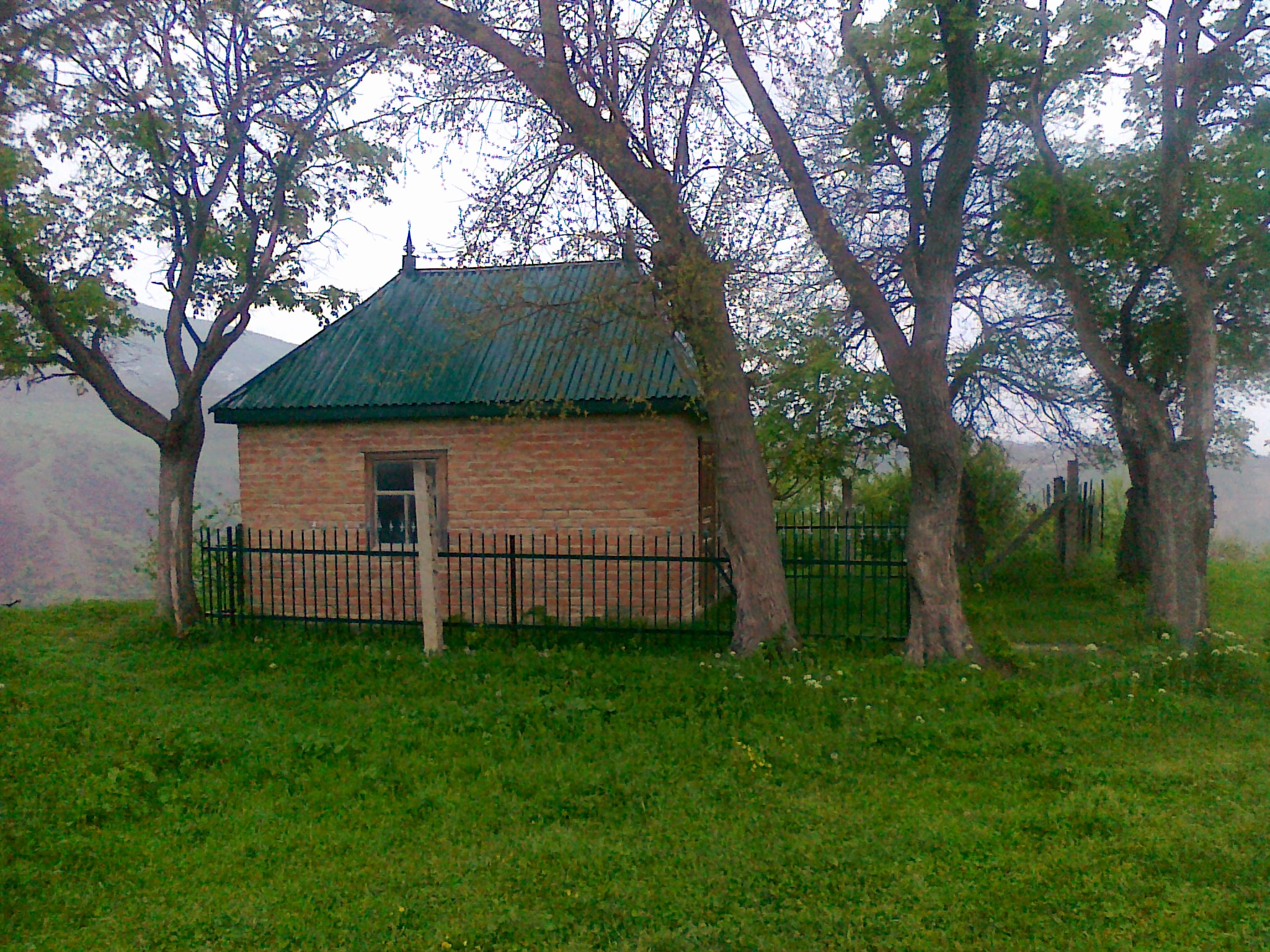 Ziyarat located in